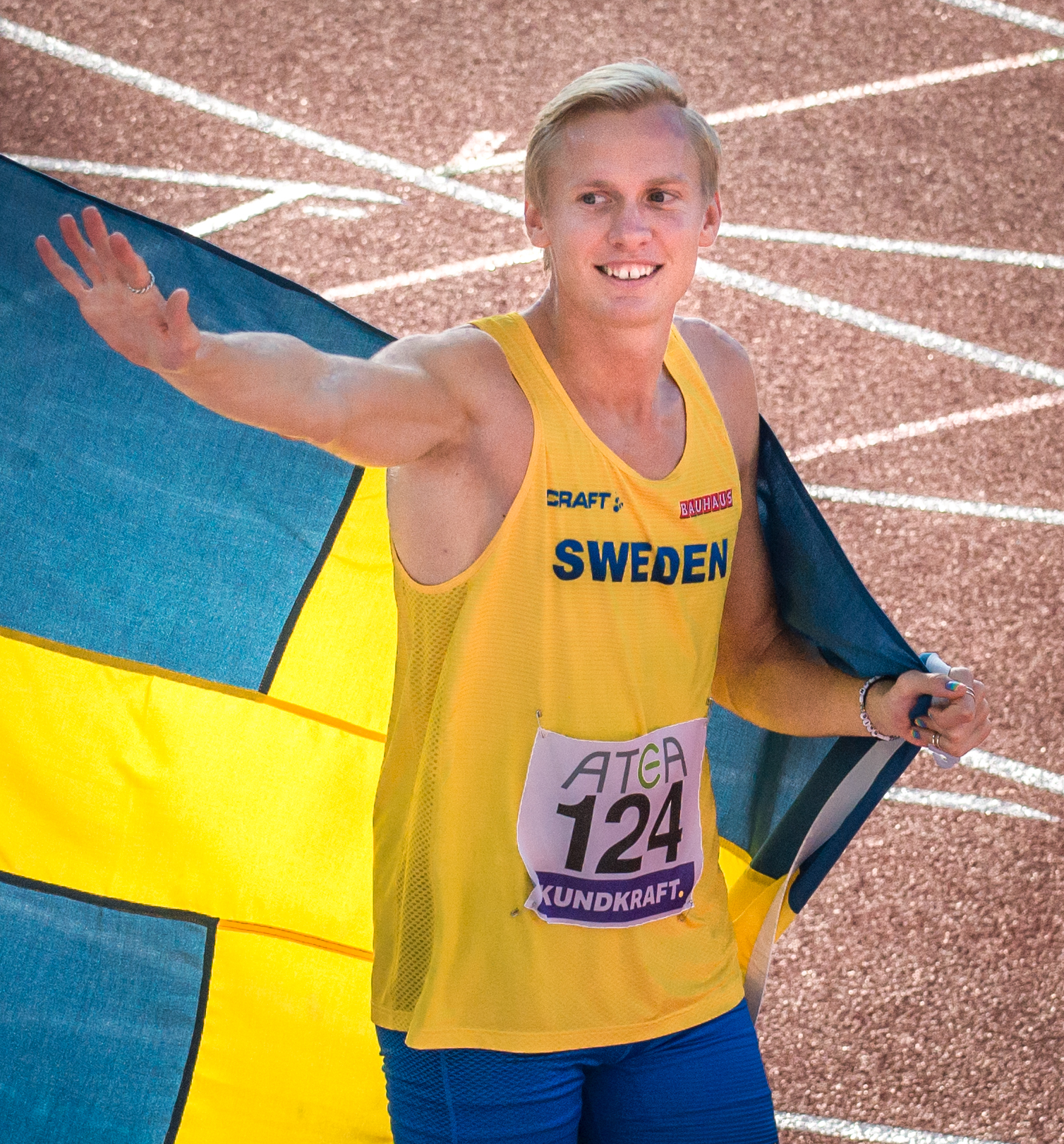 Hampus Widlund during the Finland-Sweden athletics international 2019 at the Stockholm Stadium in August 2019.